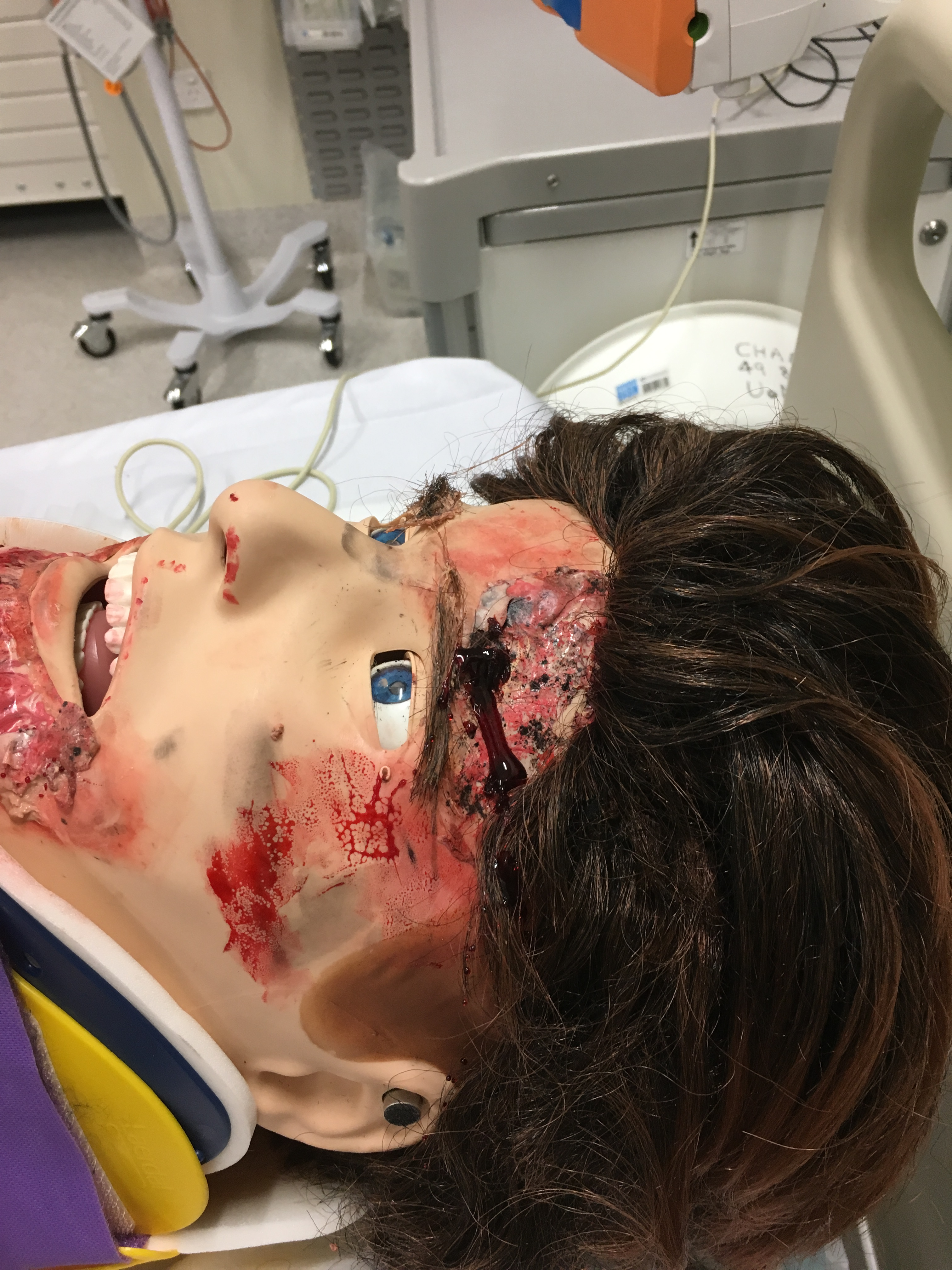 Moulage application to manikin